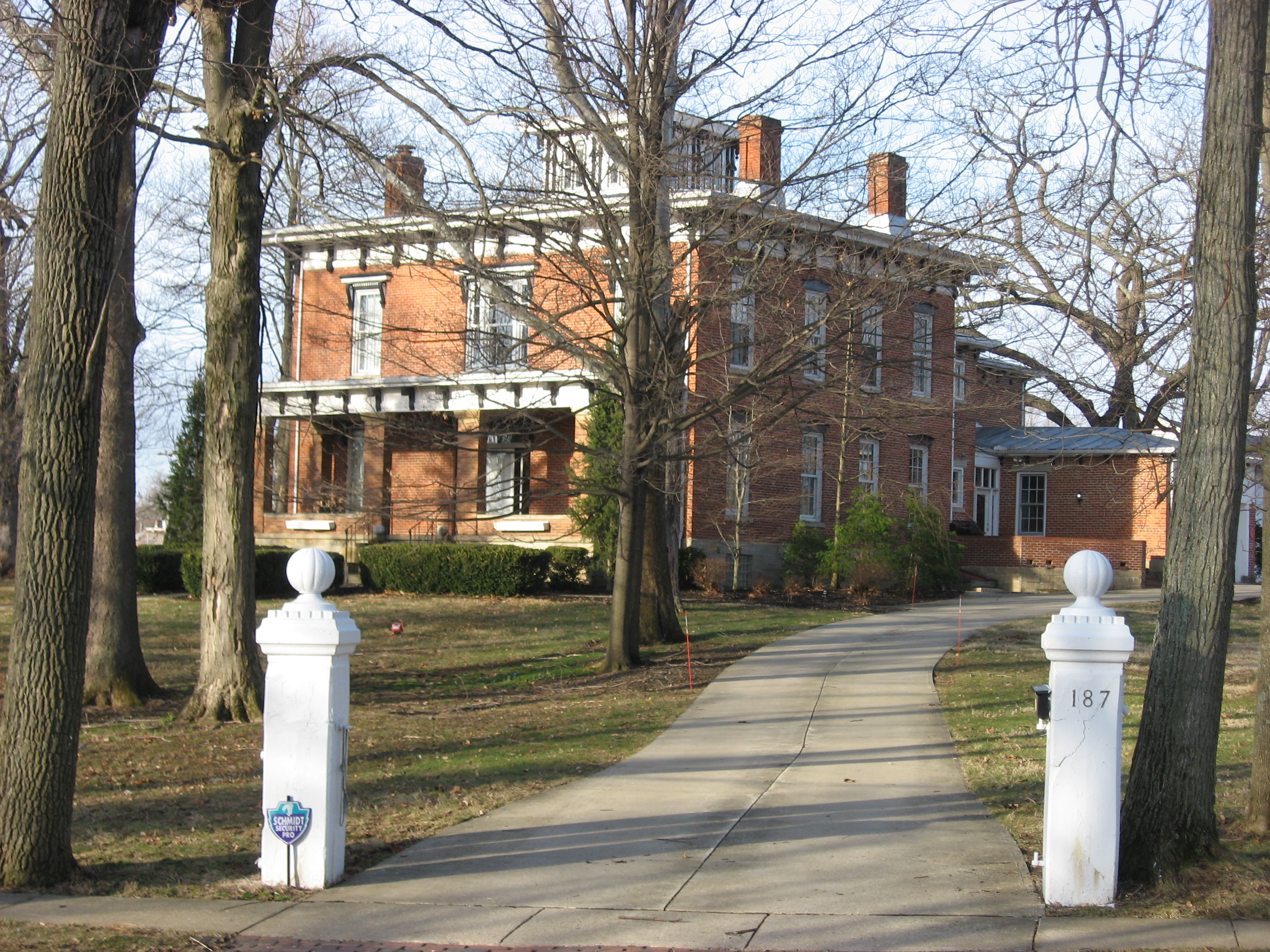 Front of the James S. Trimble House, located at 187 Iberia Street in Mount Gilead, Ohio, United States. The largest house in Mount Gilead, it was built in 1853 and is listed on the National Register of Historic Places.